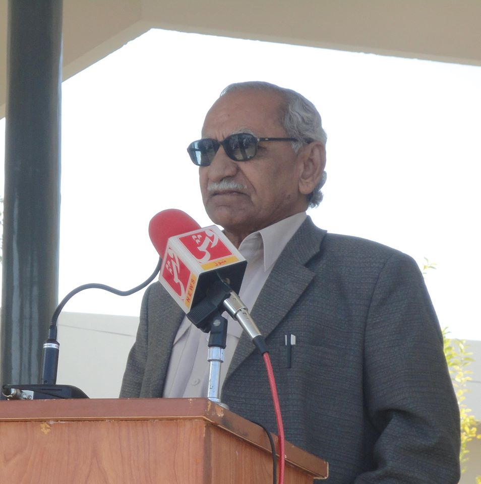 Author